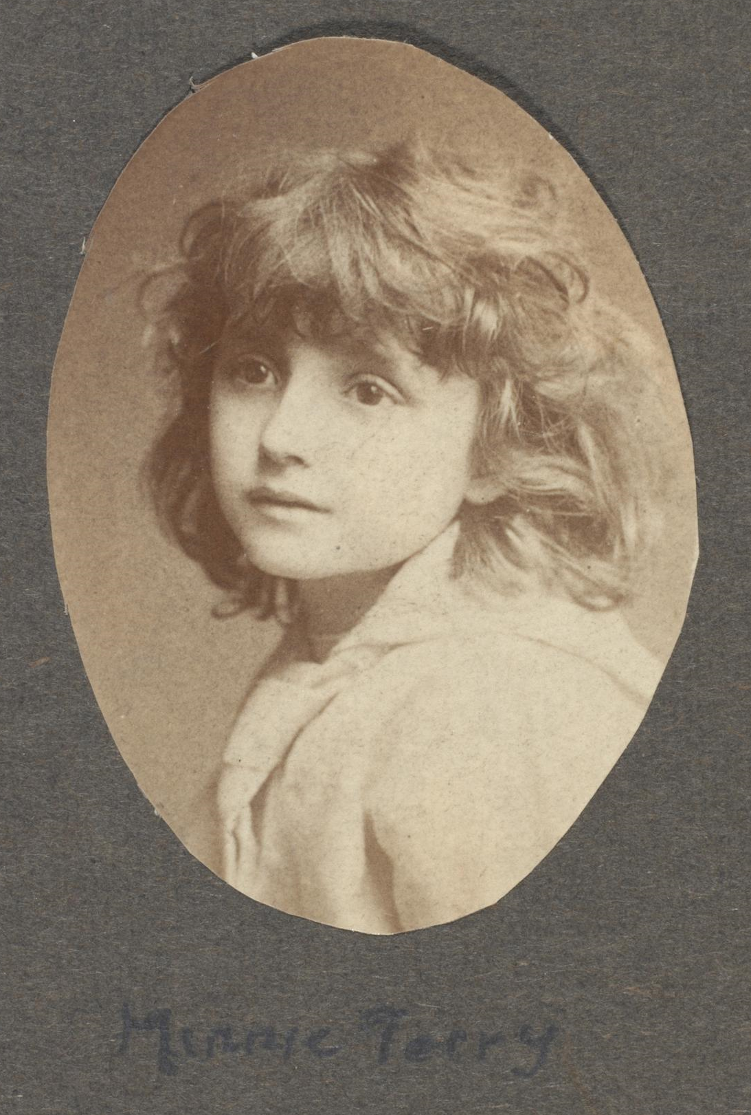 Object: Photograph Place of origin: Great Britain (photographed) Date: 19th Century (photographed) Artist/Maker: Unknown (photographers) Materials and Techniques: Sepia photograph on paper Credit Line: Bequeathed by Guy Little Museum number: S.133:684-2007 Gallery location: In Storage